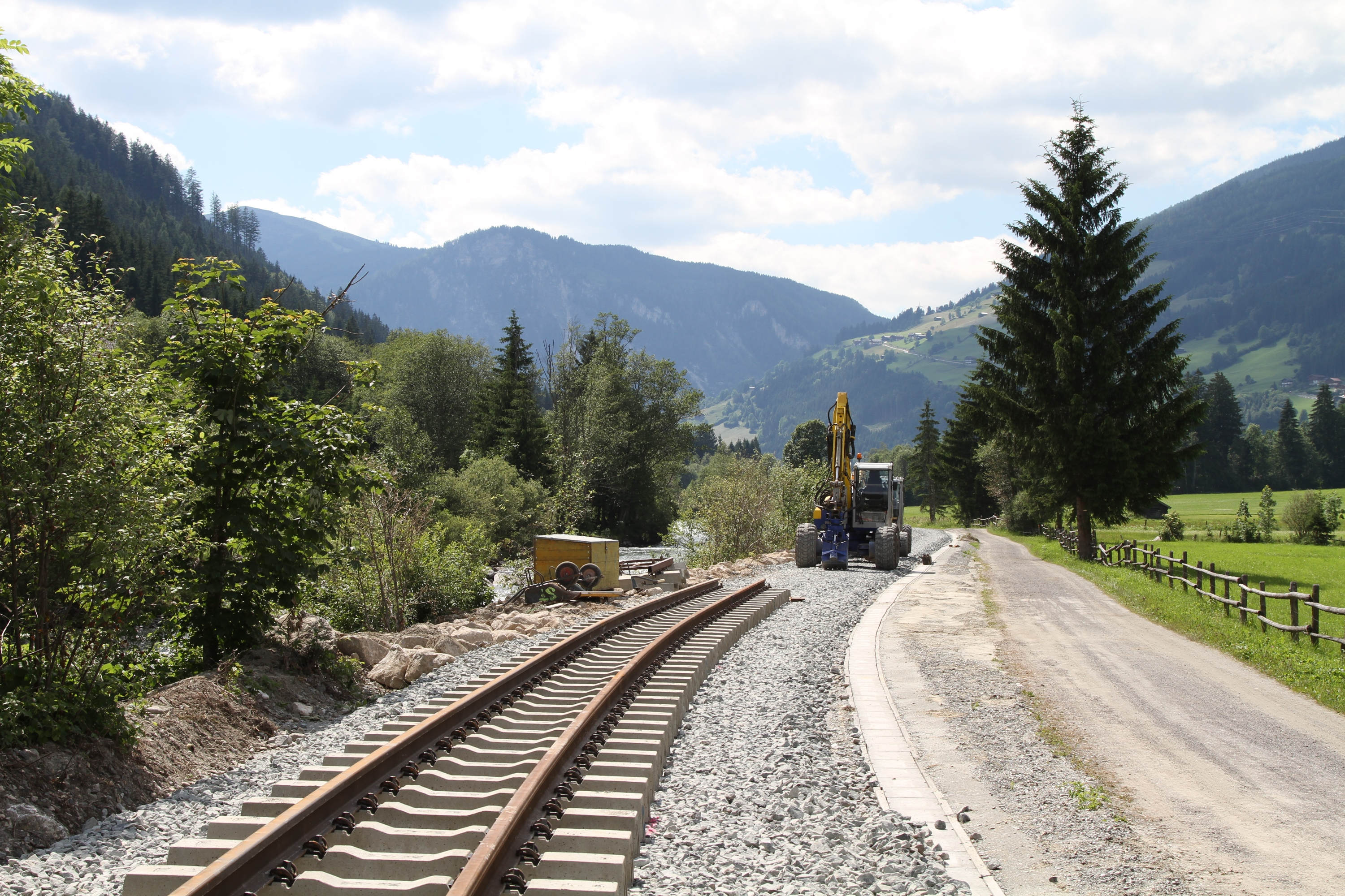 Track construction site near Rosental-Großvenediger halt. The line is being rebuilt with heavy tracks and concrete sleepers.